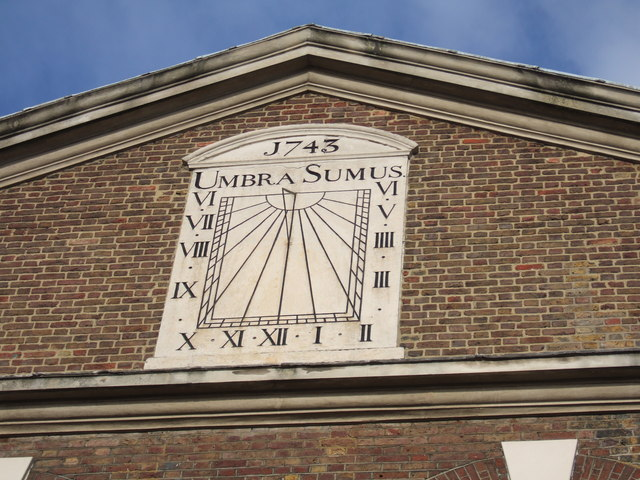 Sundial on what is now the Great London Mosque (320559). The Latin motto Umbra sumus means "we are shadow", and are taken from Horace's statement Pulvis et umbra sumus, meaning "We are dust and shadow".